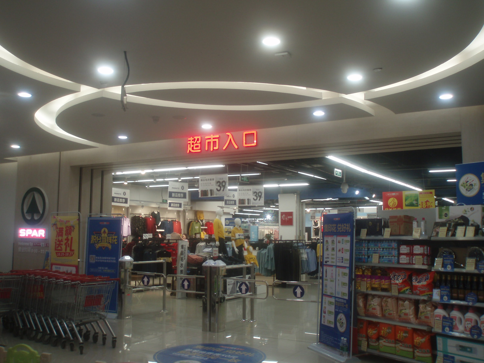 SPAR Supermarket in Huayi Plaza, Guzhen, Guangdong, China